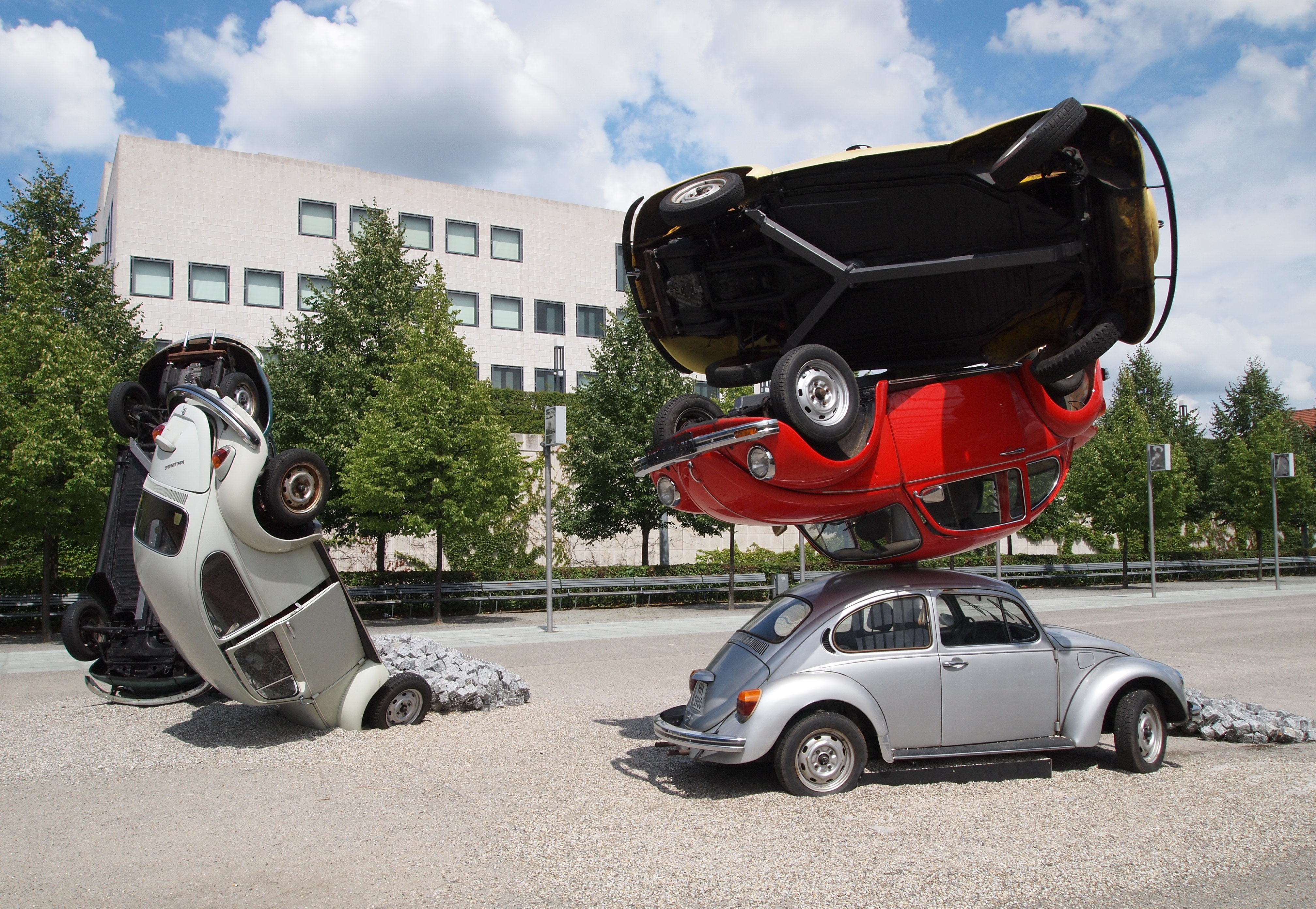 Exhibition CarCulture in Karlsruhe, public sculpture in front of ZKM museum